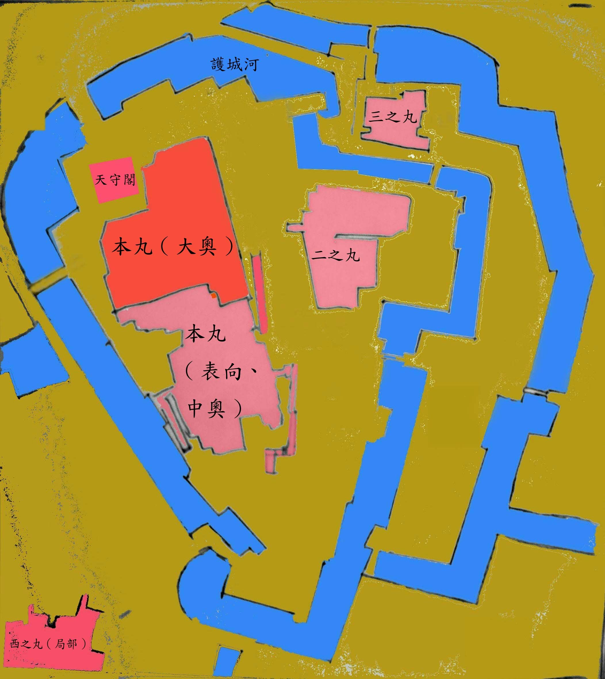 Location map of Ooku at Edo period. Created according the information from [1]. The map is NOT in scale. The description words on the map are written in Chinese. All are welcome to edit this map to improve its quality. 大奧位置圖，據[2]繪畫。本圖並沒有按比例繪畫，各處所位置亦只為估計位置。本圖說明文字以中文撰寫。本圖歡迎修改以改進質素。